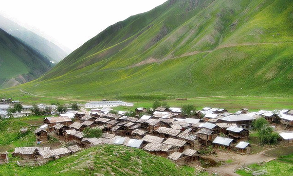 a colony and nature's beauty is shown in the image